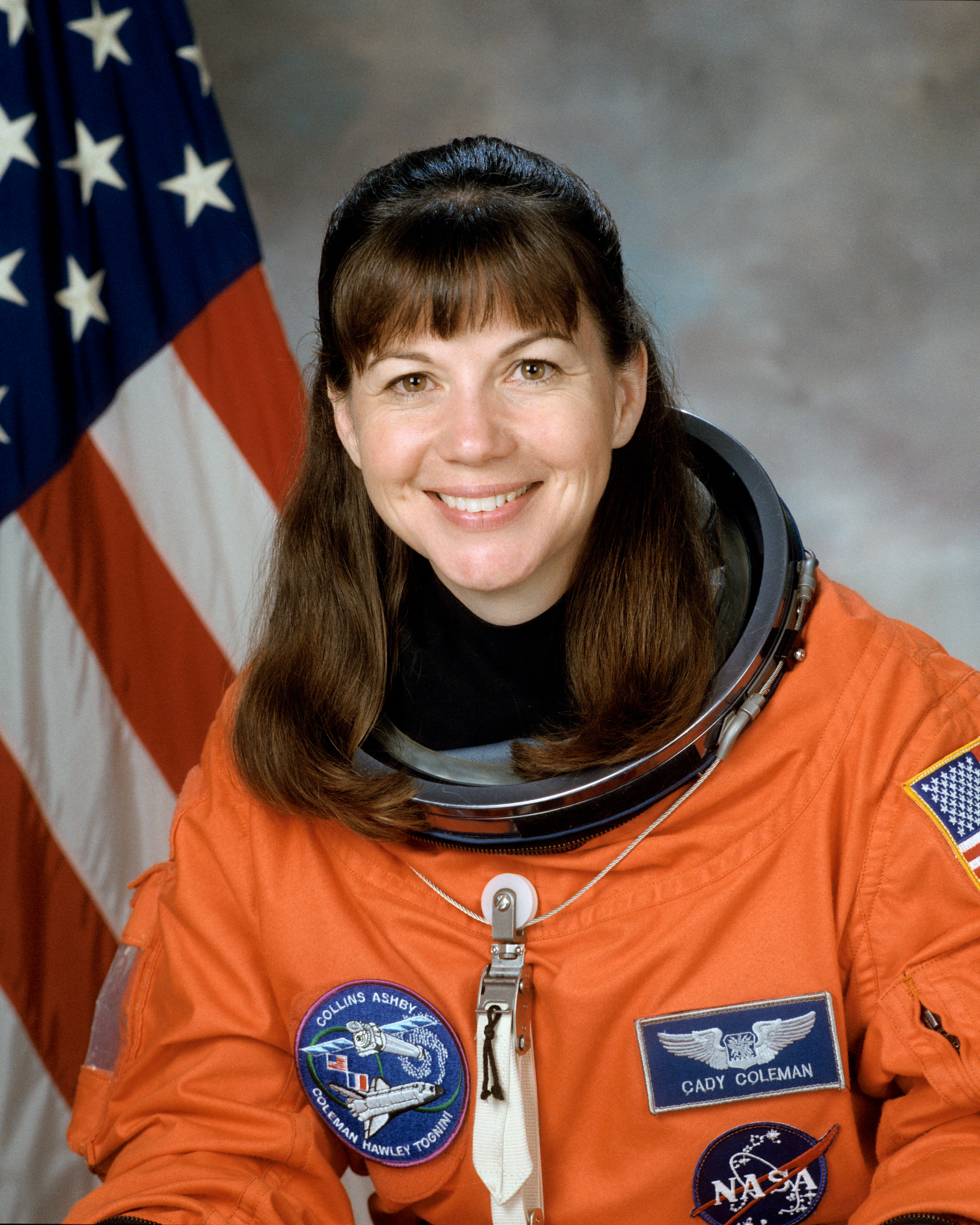 Astronaut Catherine G. Coleman, mission specialist